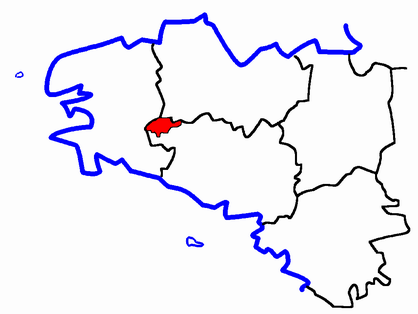 Description: Map for localisazion of cantons of Bretagne region in France Source: made by Hervé Tigier in april 2005 from another large map (published in 1990)